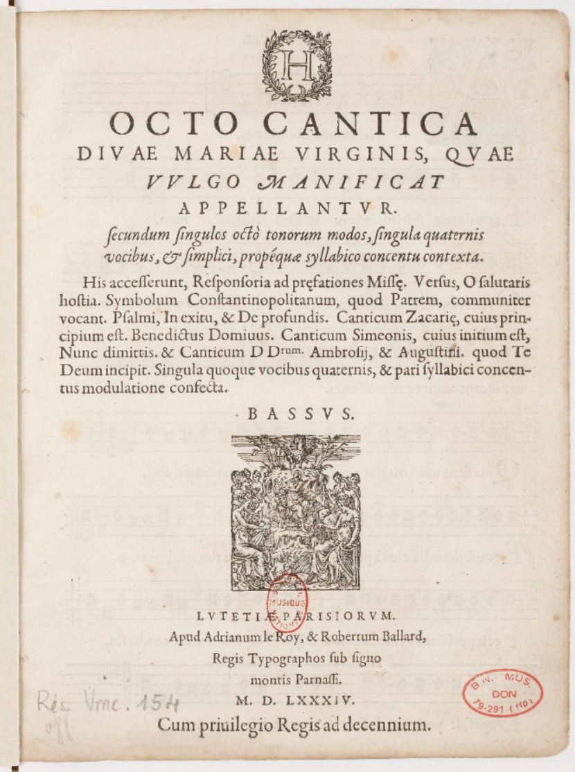 Title page of Octo cantica (Paris : Le Roy et Ballard, 1584). Paris BNF.